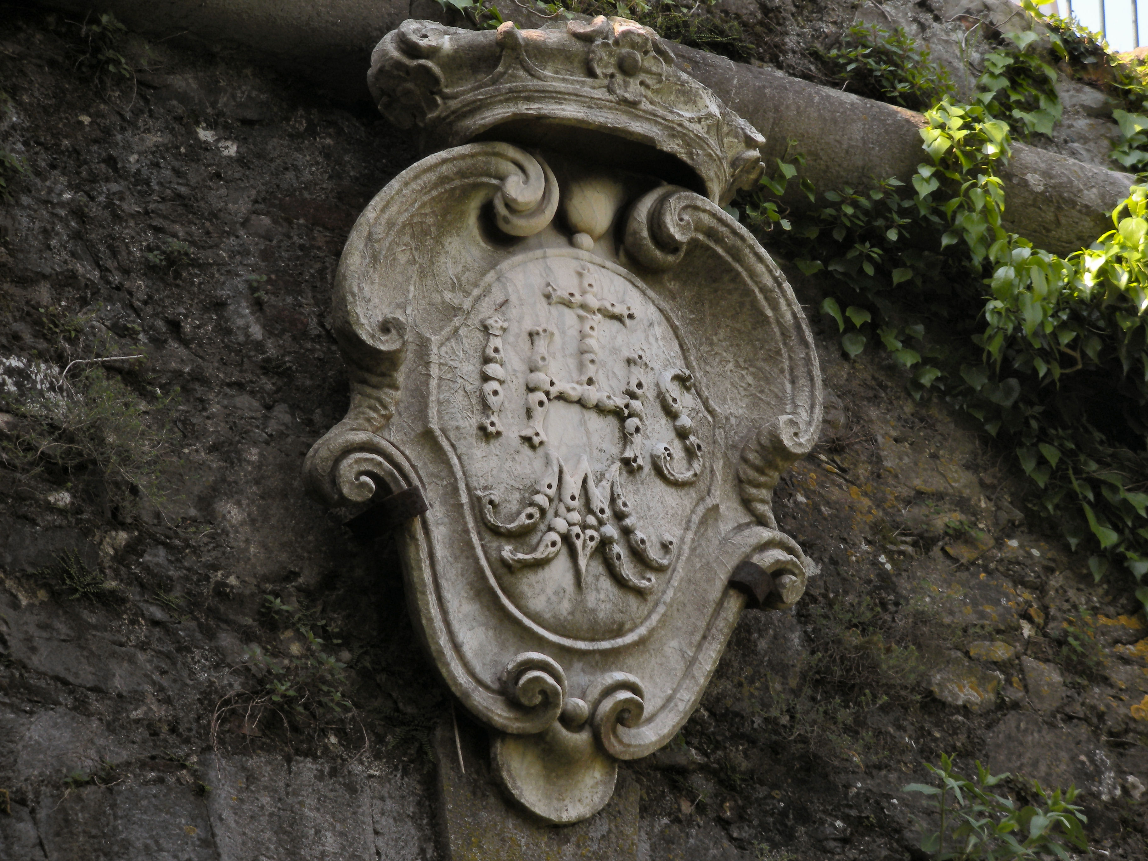 Genoa, marble coat of arms of Granarolo gate